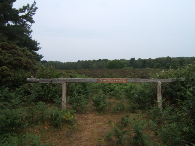 North Warren RSPB Conservation area near B1122.